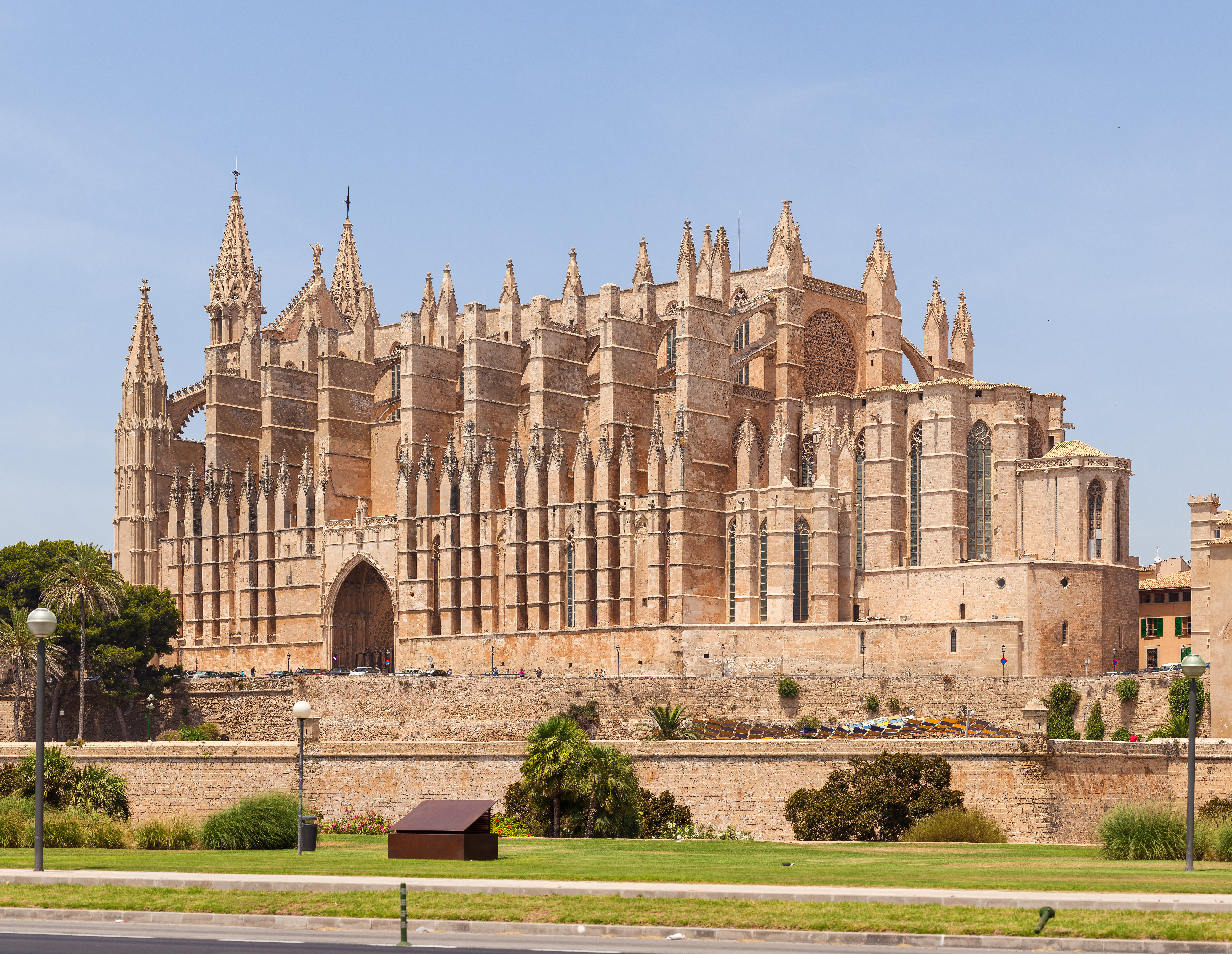 Palma Cathedral in Palma de Mallorca, Majorca, Spain